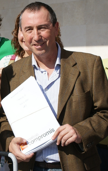 Joan Baldoví